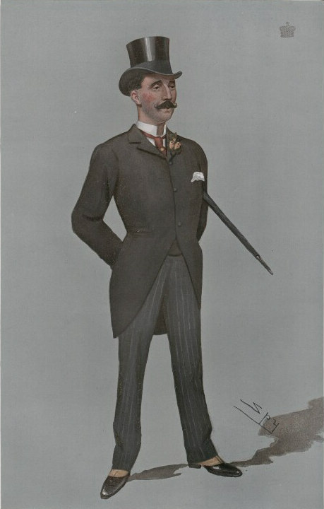 Caricature of Arthur Annesley, Viscount Valentia MP. Caption read "Oxford City". Accompanying biographical note read "In the sixties he was accounted the smartest Hussar in the Service on the Curragh of Kildare - where he was known to his inmates as 'Snowball'.... In the House of Commons he is a singularly popular man who wears the white flower of a blameless life.... He seems to have discovered the secret of perpetual youth".